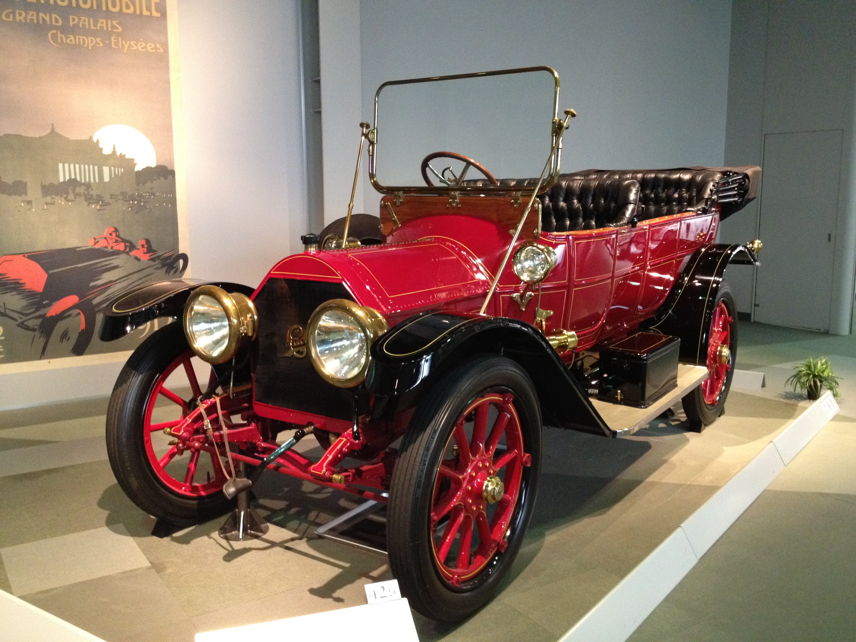 1912 Cadillac Model Thirty Toyota Automobile Museum